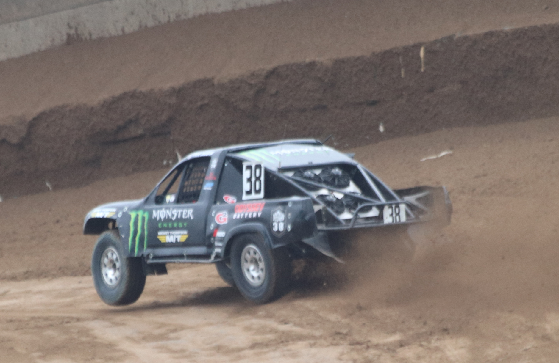 Hailie Deegan racing her LOORS Pro Lite truck at Crandon.